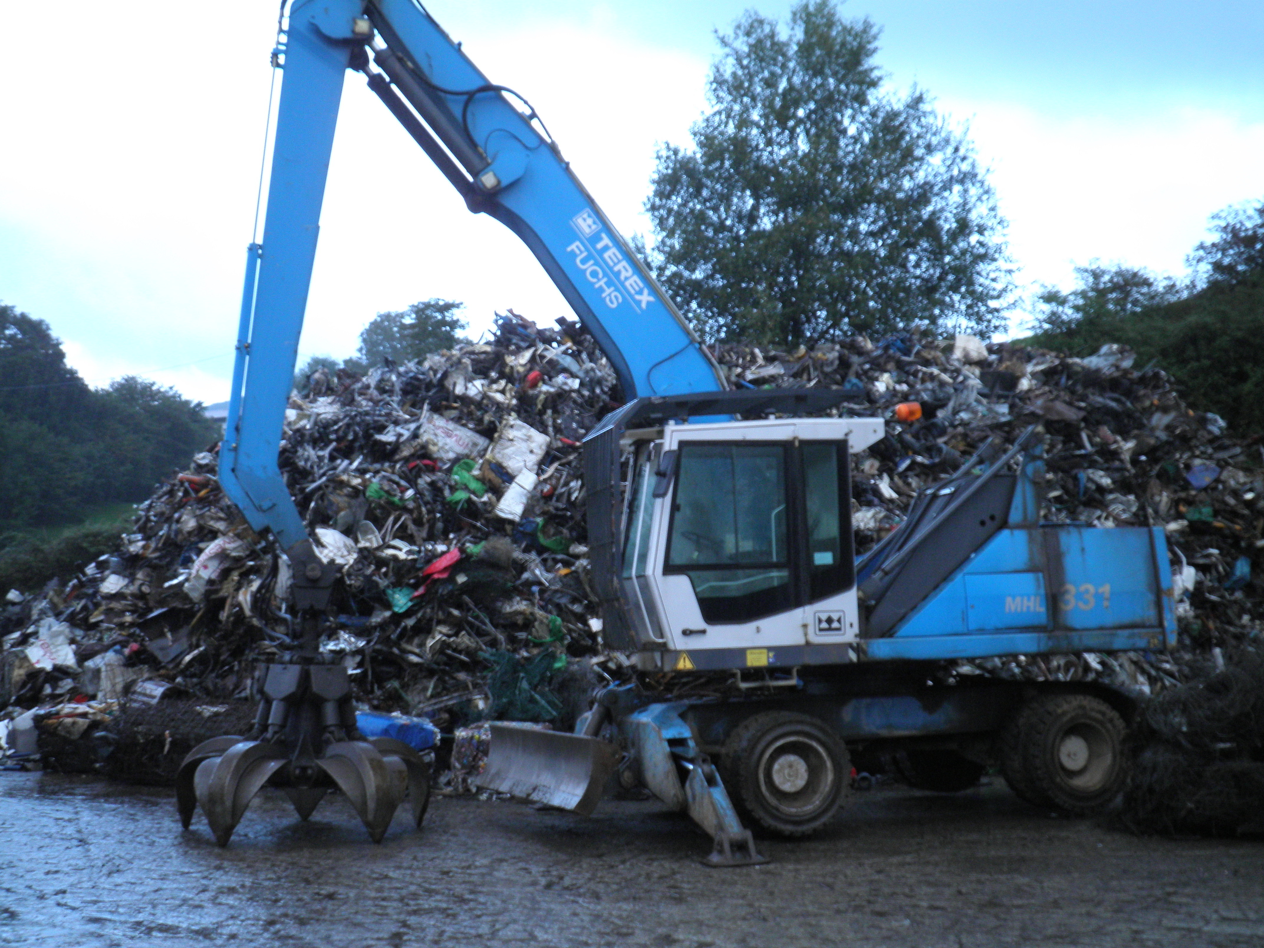 Scrap metal, ready for processing, in Basque Country.